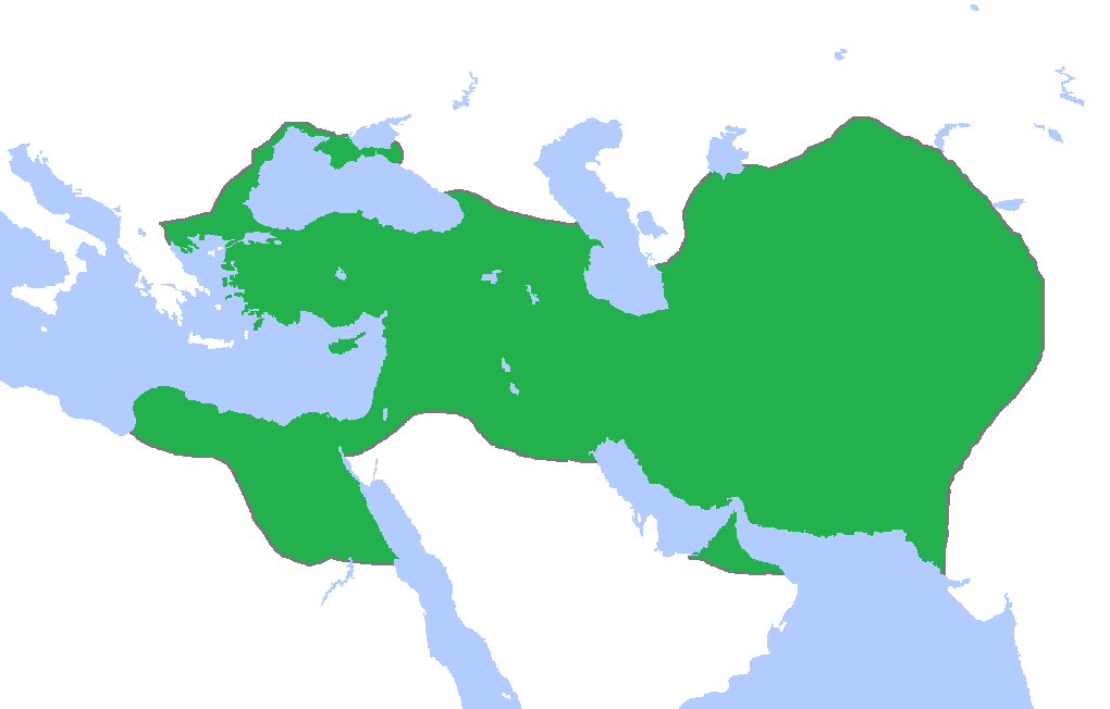 This a map of the Achaemenid Empire showing its greatest extent. I have given it more regions as listed on the Behistun Inscription the Persian King Darius wrote telling his conquests.